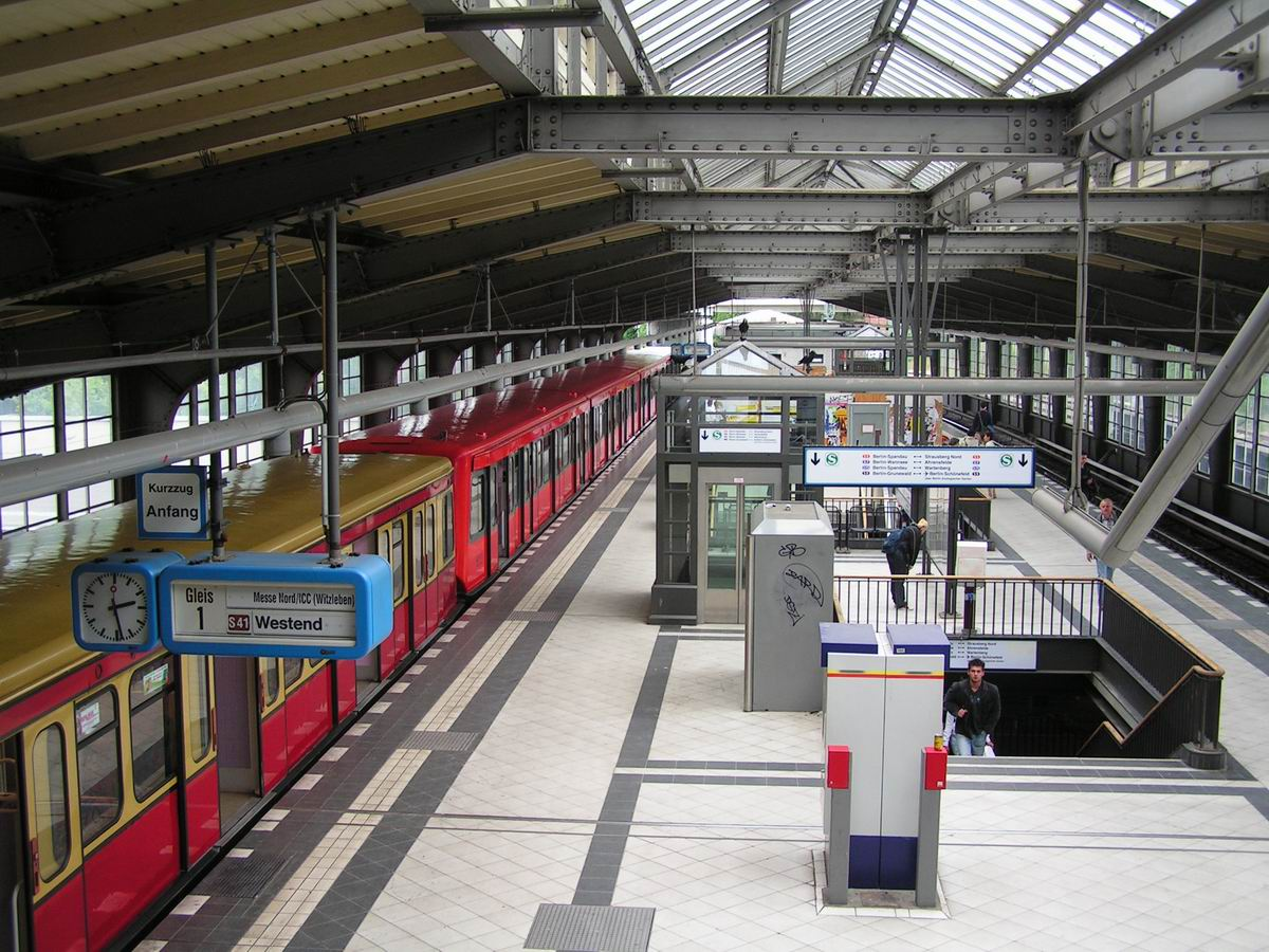 Berlin S-Bahn station Westkreuz, platform of the Ringbahn ("Circle line")